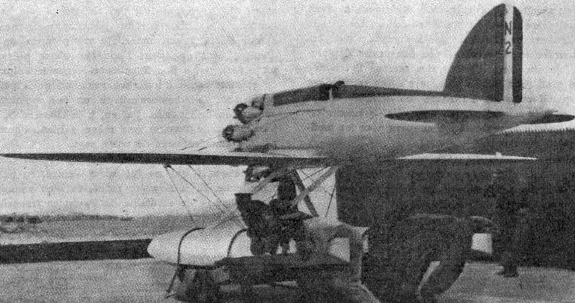 Short Crusader photo from L'Aérophile October,1927